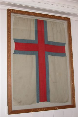 The first orginal flag of Faroe Islands, Fámjin